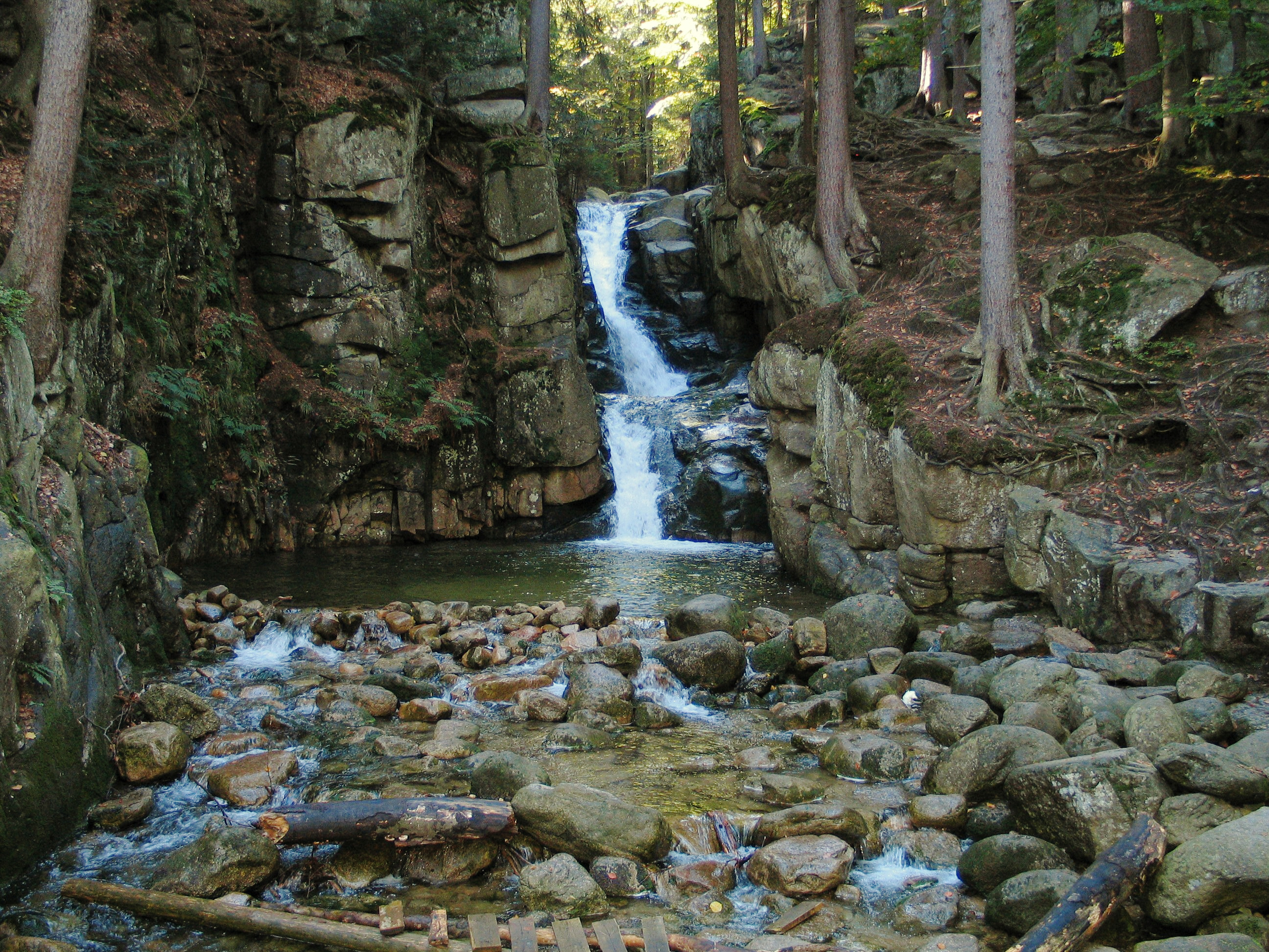 Wodospad Podgornej (Waterfall), Karkonosze Mountains, Poland